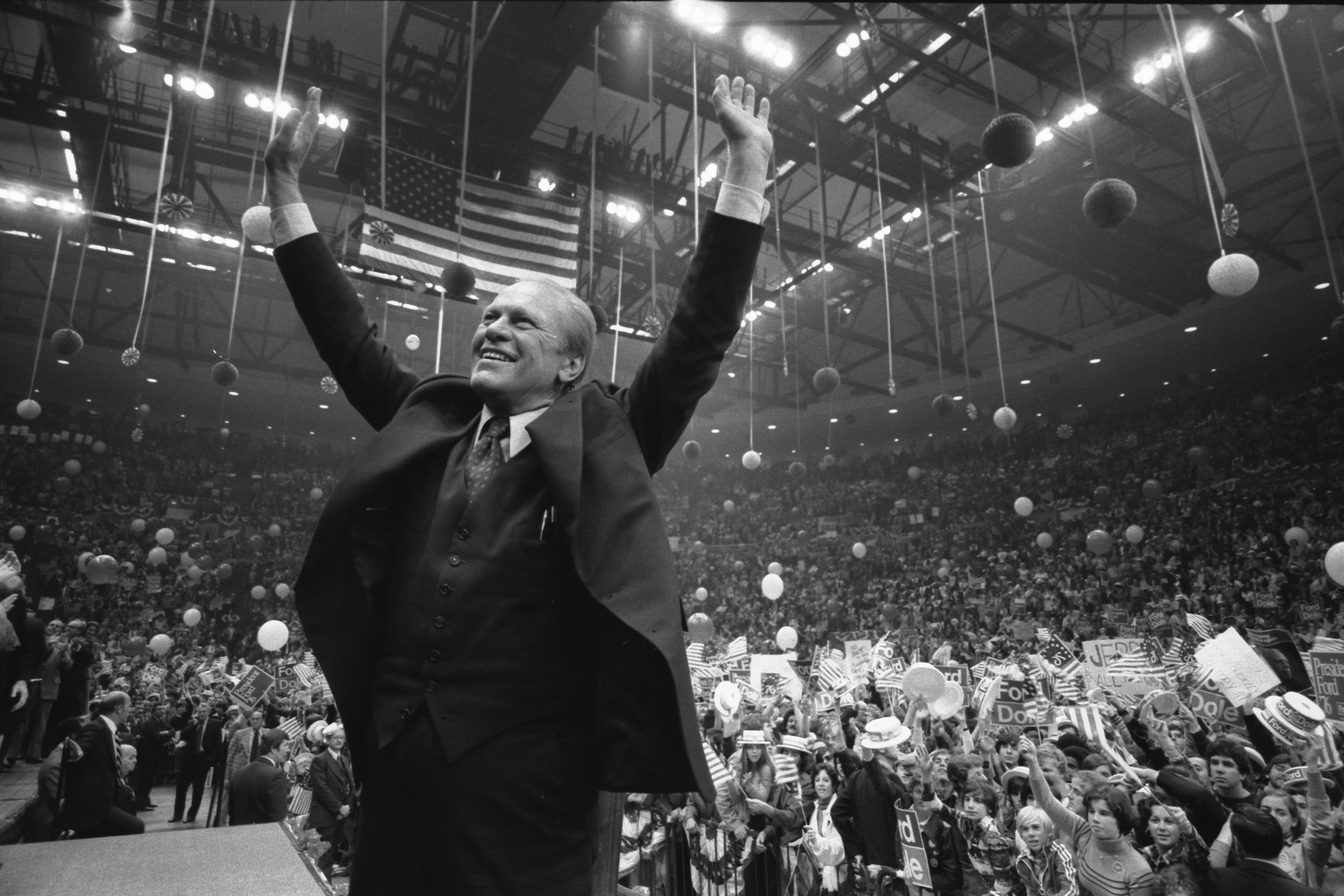 President Gerald Ford campaigning at the Nassau County Veterans Coliseum in Hempstead, New York before returning to Michigan for the final days of the election campaign.